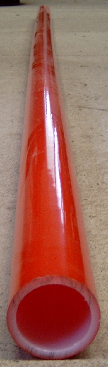 factory-fresh flexible pipe made of cross-linked polyethylene (PE-X) with oxygen diffusion barrier made of ethylene vinyl alcohol (EVOH) and red coloured adhesion agent between PE-X and EVOH, pipe dimension 63×5,8 mm